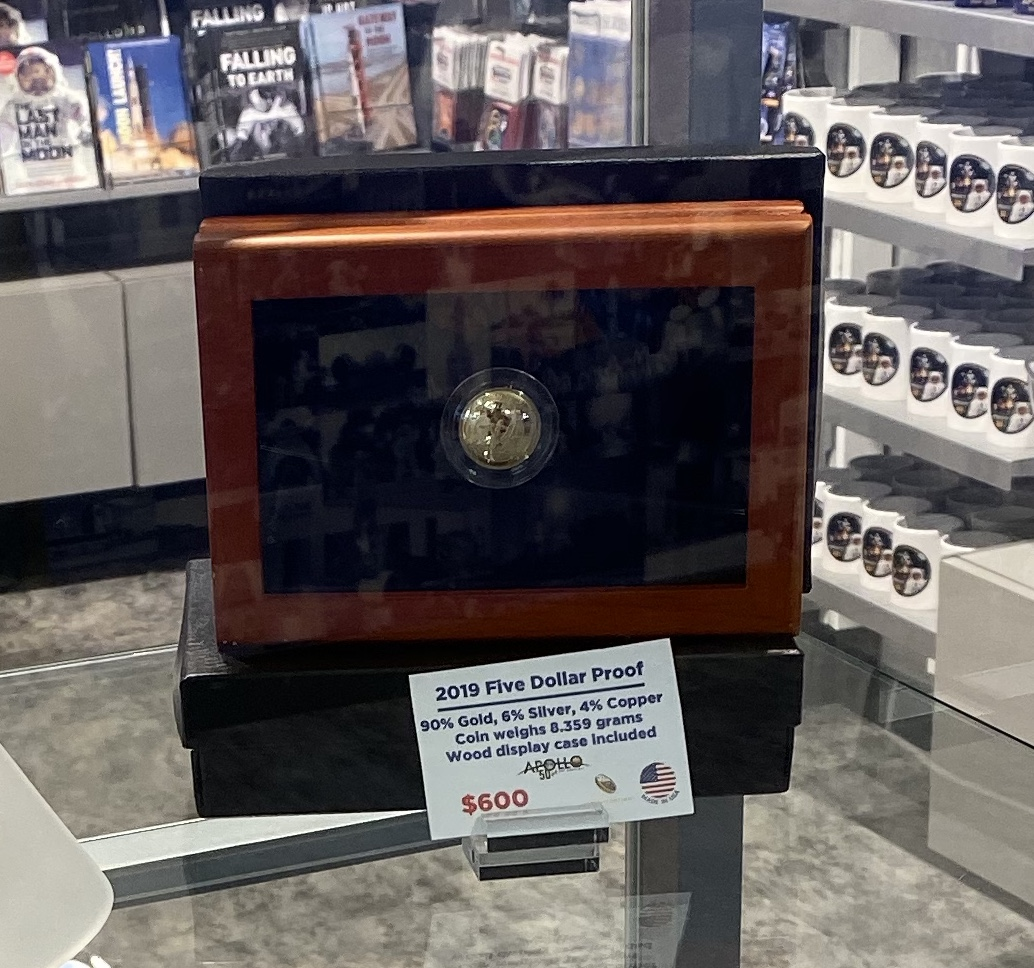 Portion of display case showing the Apollo 11 five dollar gold piece on sale at Kennedy Space Center Visitor Complex